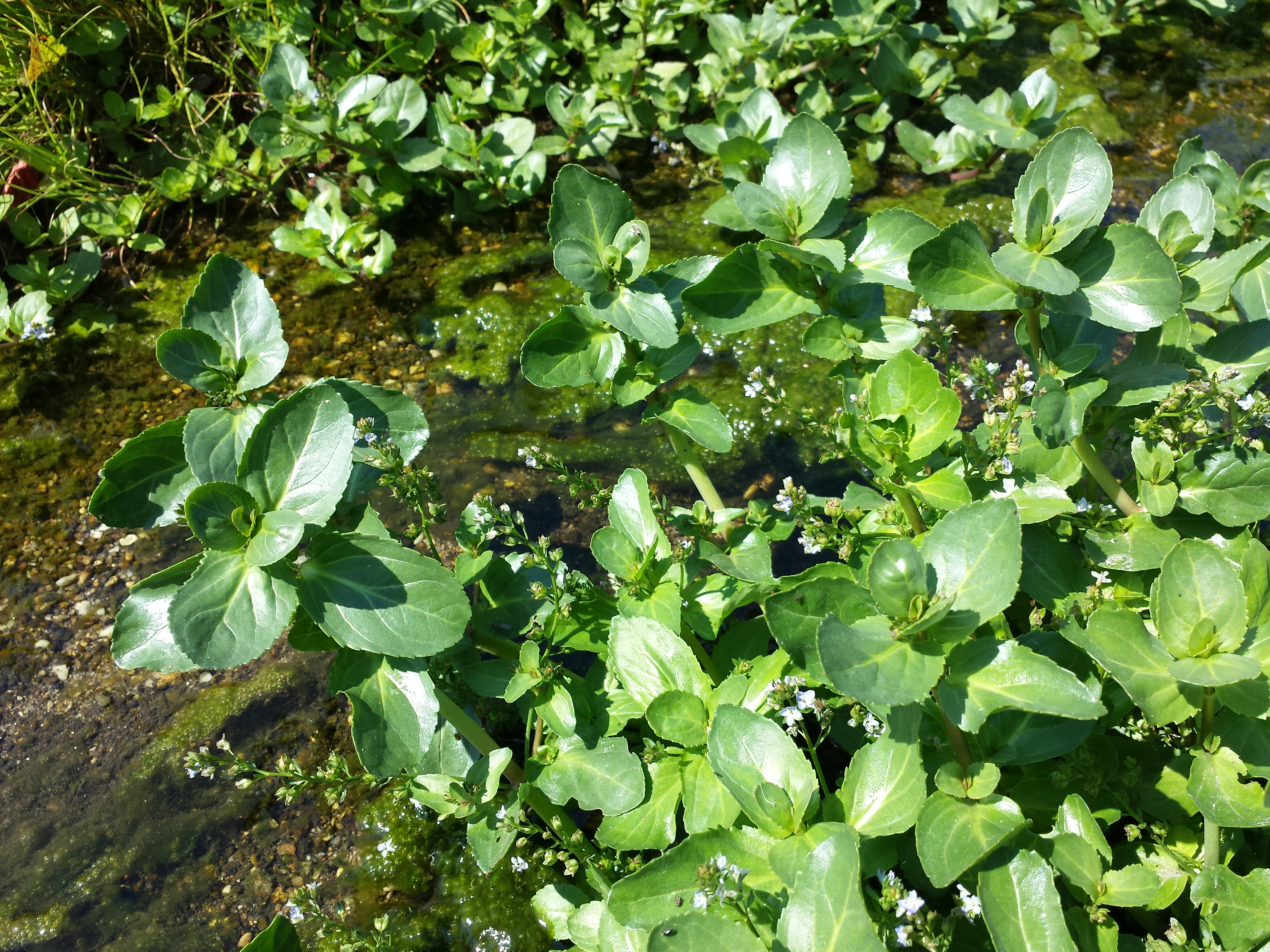 Habitus Taxonym: Veronica beccabunga ss Fischer et al. EfÖLS 2008 ISBN 978-3-85474-187-9 Location: Arbesbach, Groß-Gerungs, district Zwettl, Lower Austria - ca. 830 m a.s.l. Habitat: shore of a stream